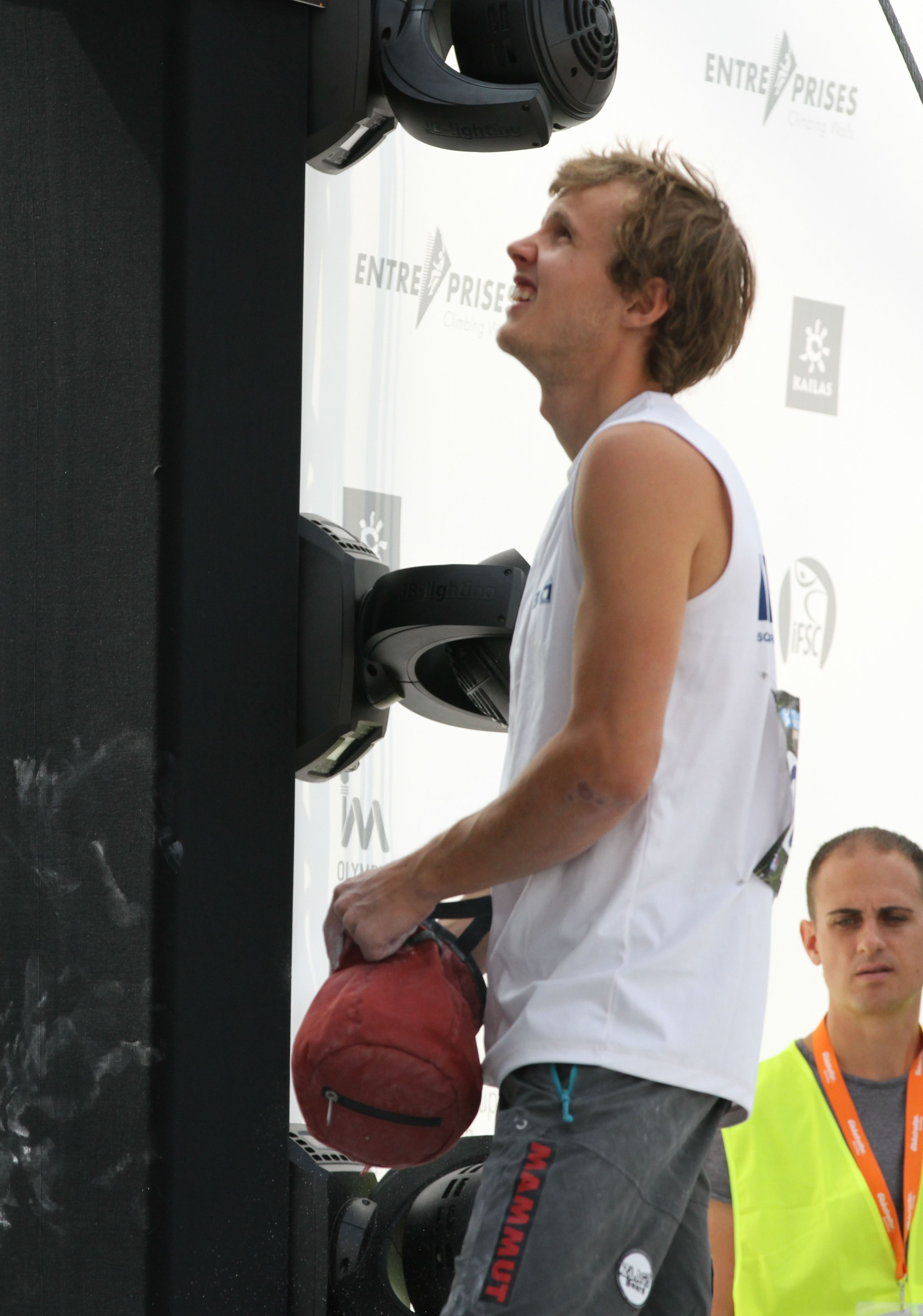 IFSC Boulder Worldcup, Munich 2015. Michael Piccolruaz (ITA)